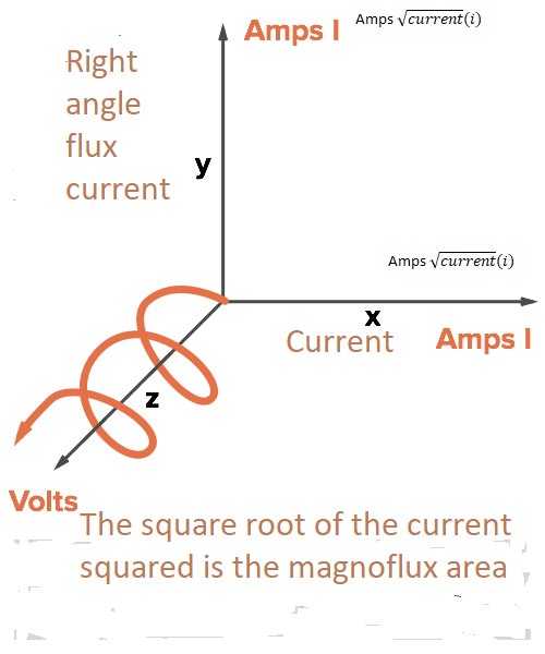 magnoflux sketch2